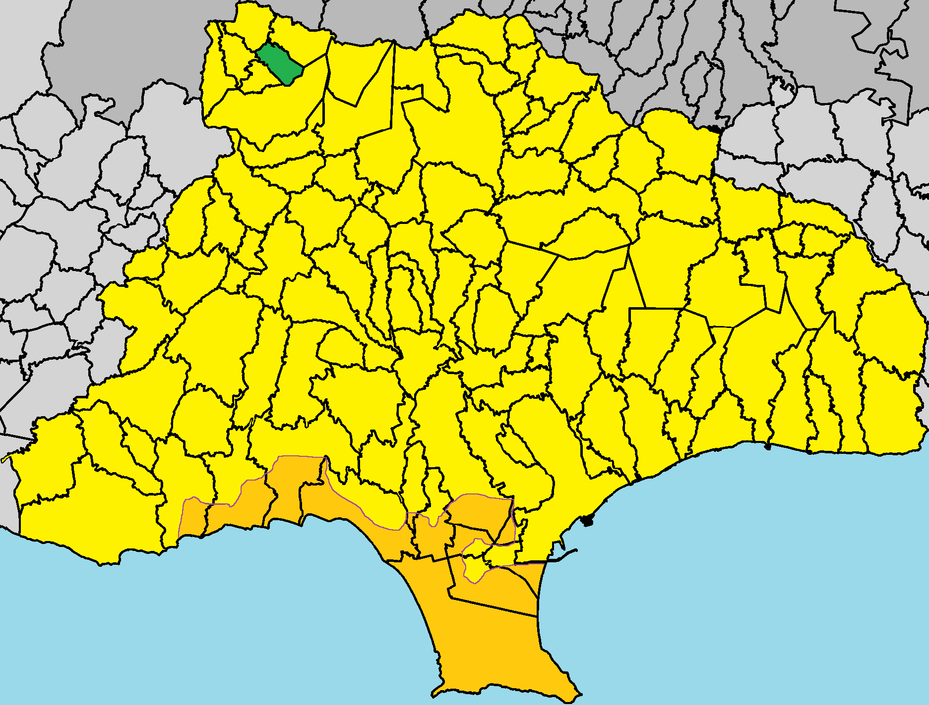 Palaiomylos in Limassol District.